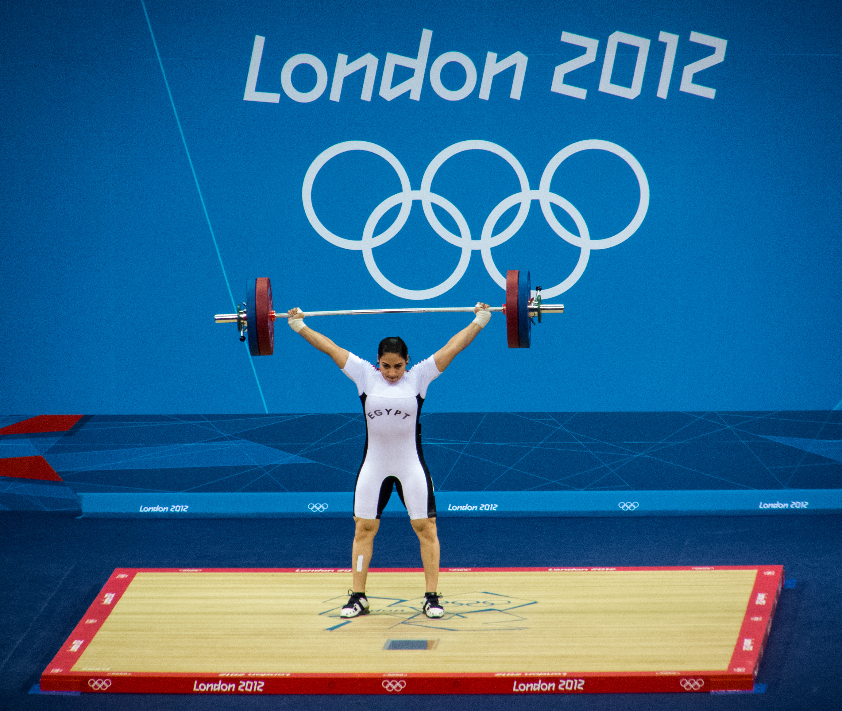 Abeer Abdelrahman Khalil Mahmoud, Egyptian weightlifter, London 2012 Olympics.